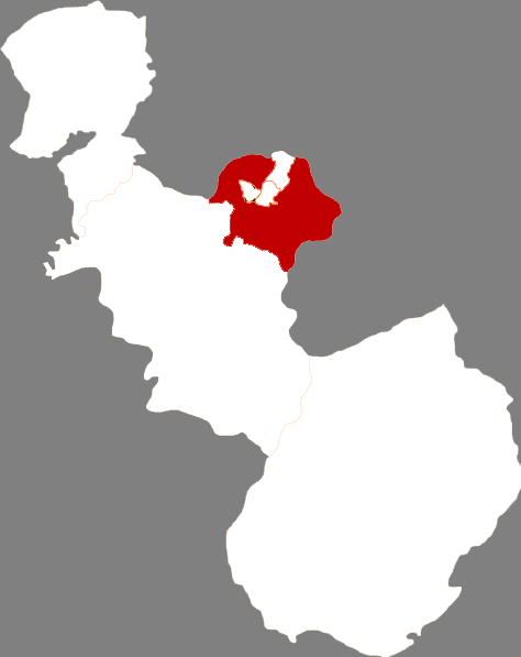 Location of Qianshan district in Anshan City, China